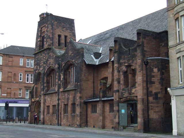 Queens Cross Church The only Charles Rennie Mackintosh church in the world, now the headquarters of the CRM society. See this for more details.